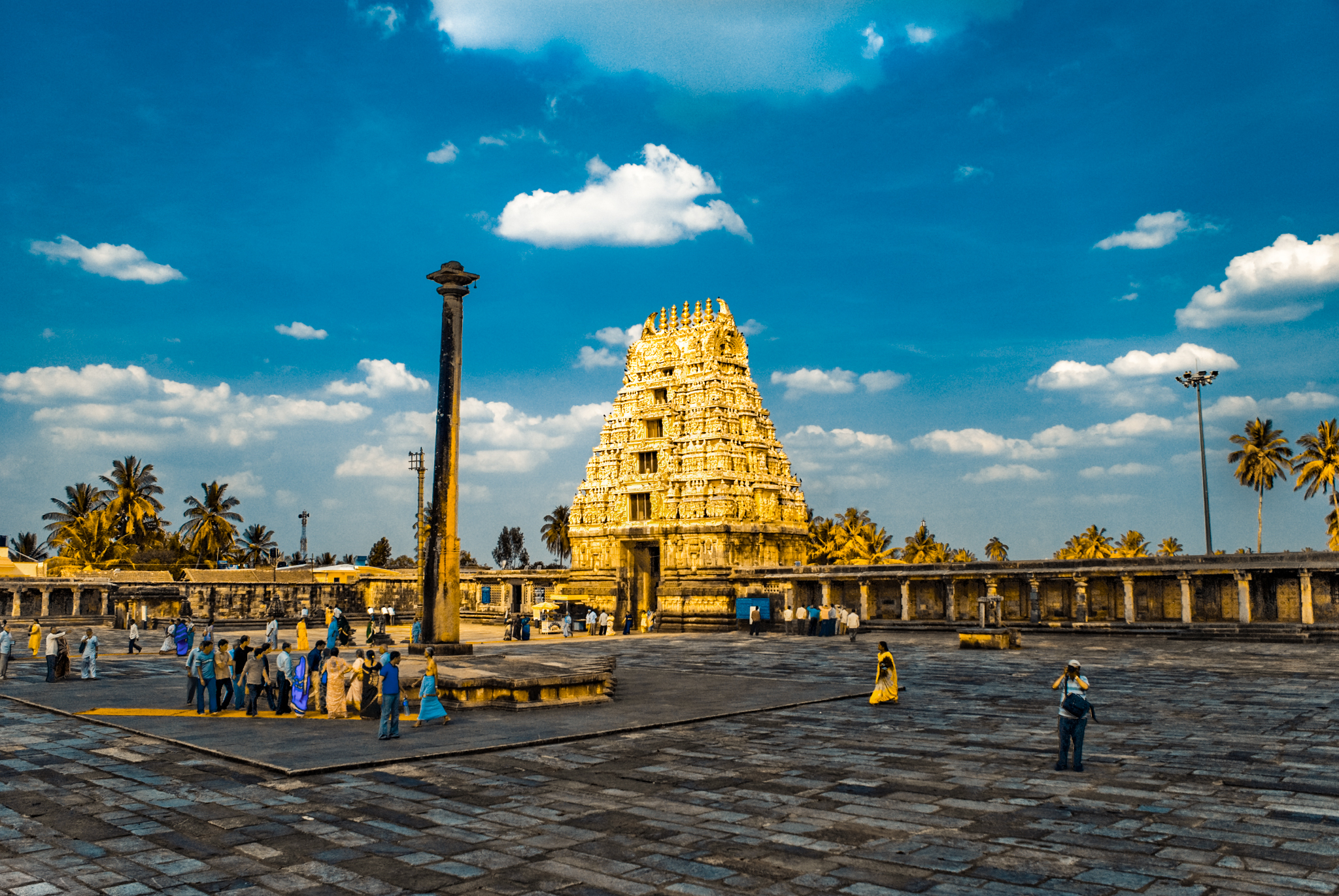 Hoysala Architectures